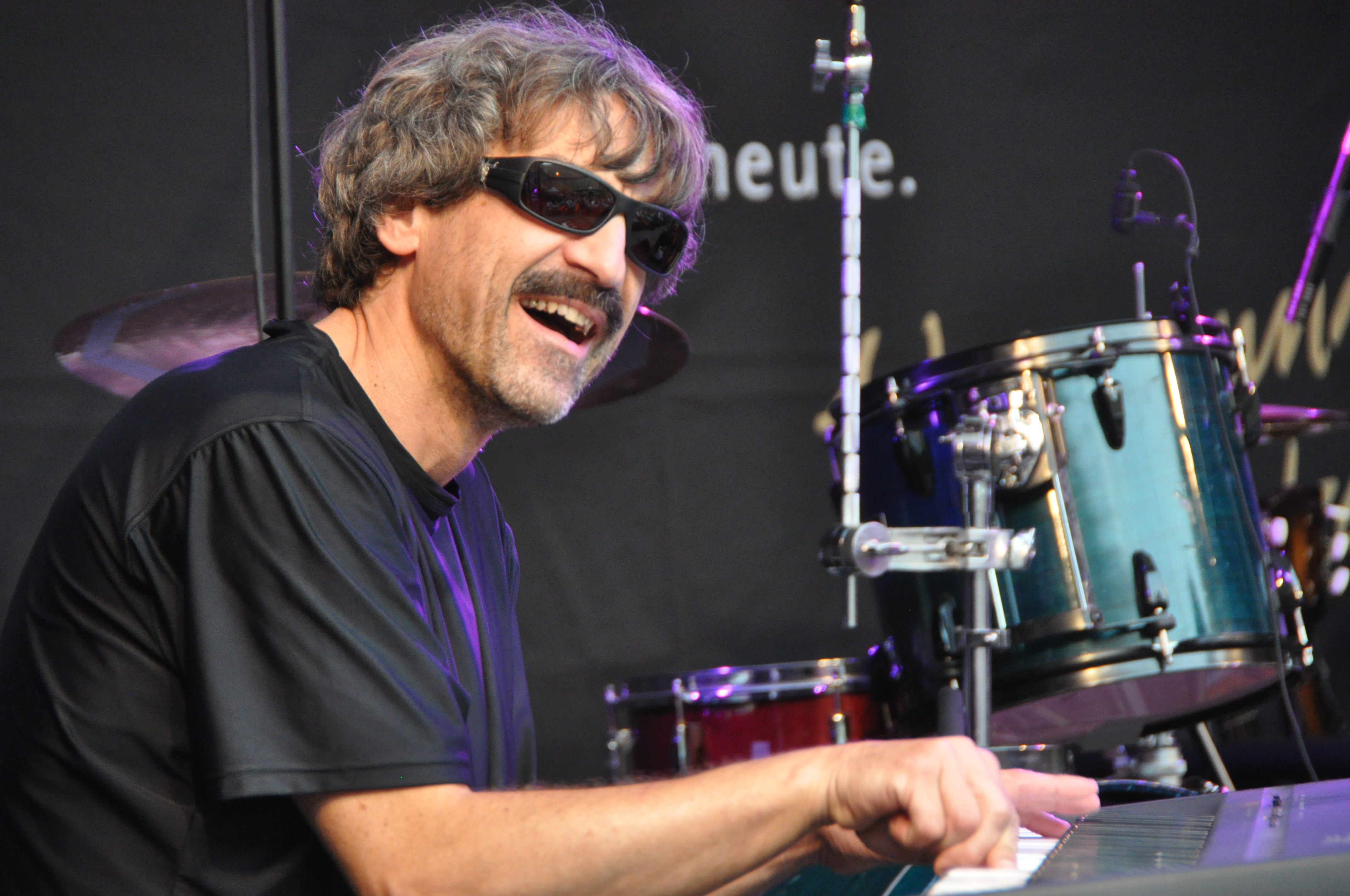 Netzer & Scheytt, appearence at the 1st blacksheep festival in the castle yard / castle park of Bad Rappenau - Bonfeld (Germany)